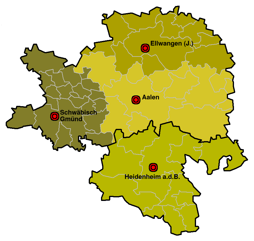 Maps of planning regions (Mittelbereiche) in the region Ostwürttemberg, Baden-Württemberg, Germany